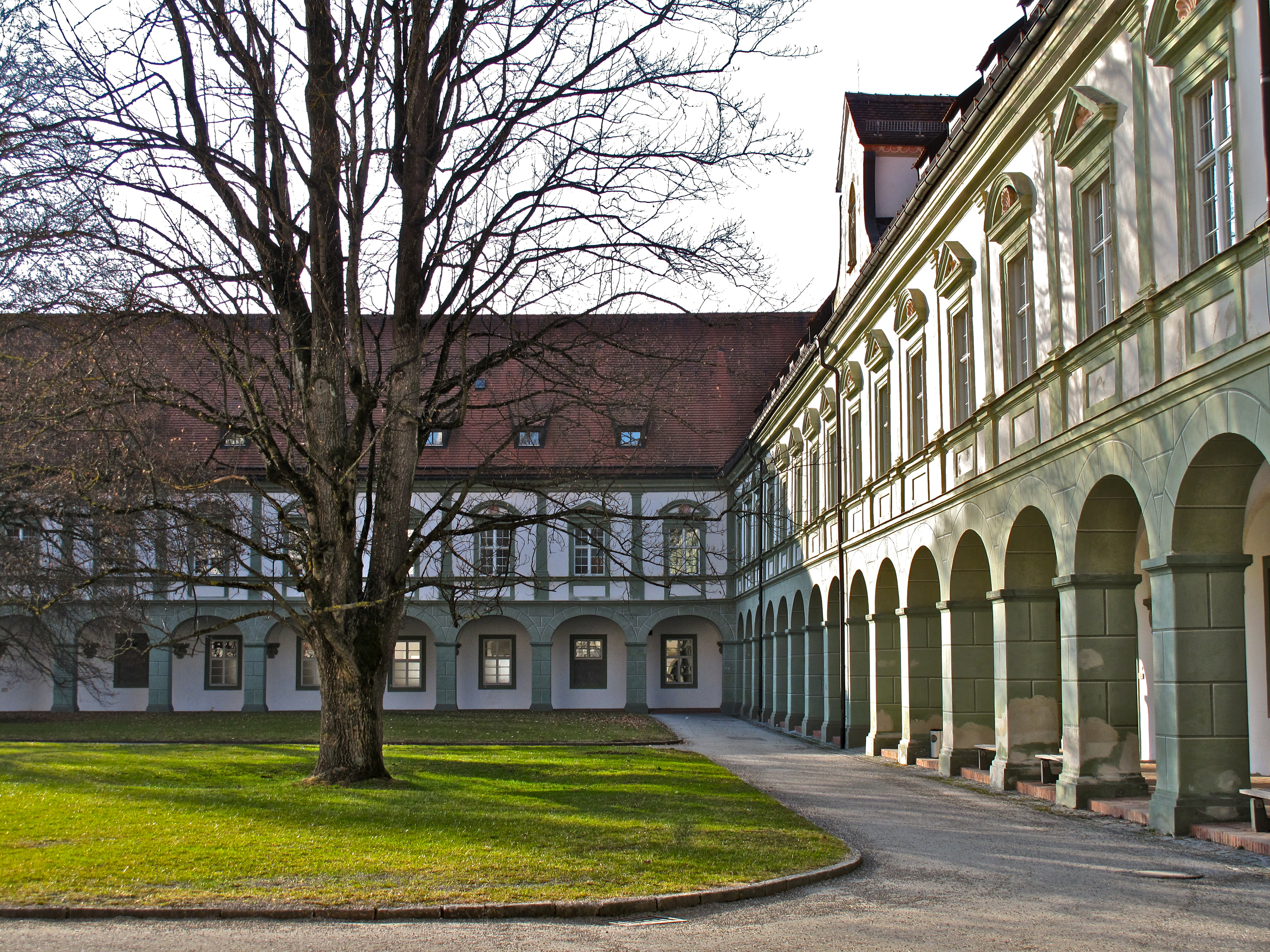 Courtyard of Benediktbeuern Abbey in Benediktbeuern, Upper Bavaria, Germany